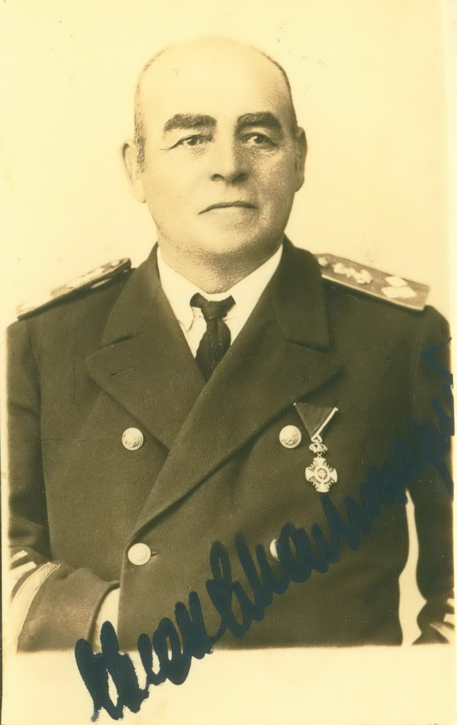 Eugen Malinaric, Yugoslavian naval officer